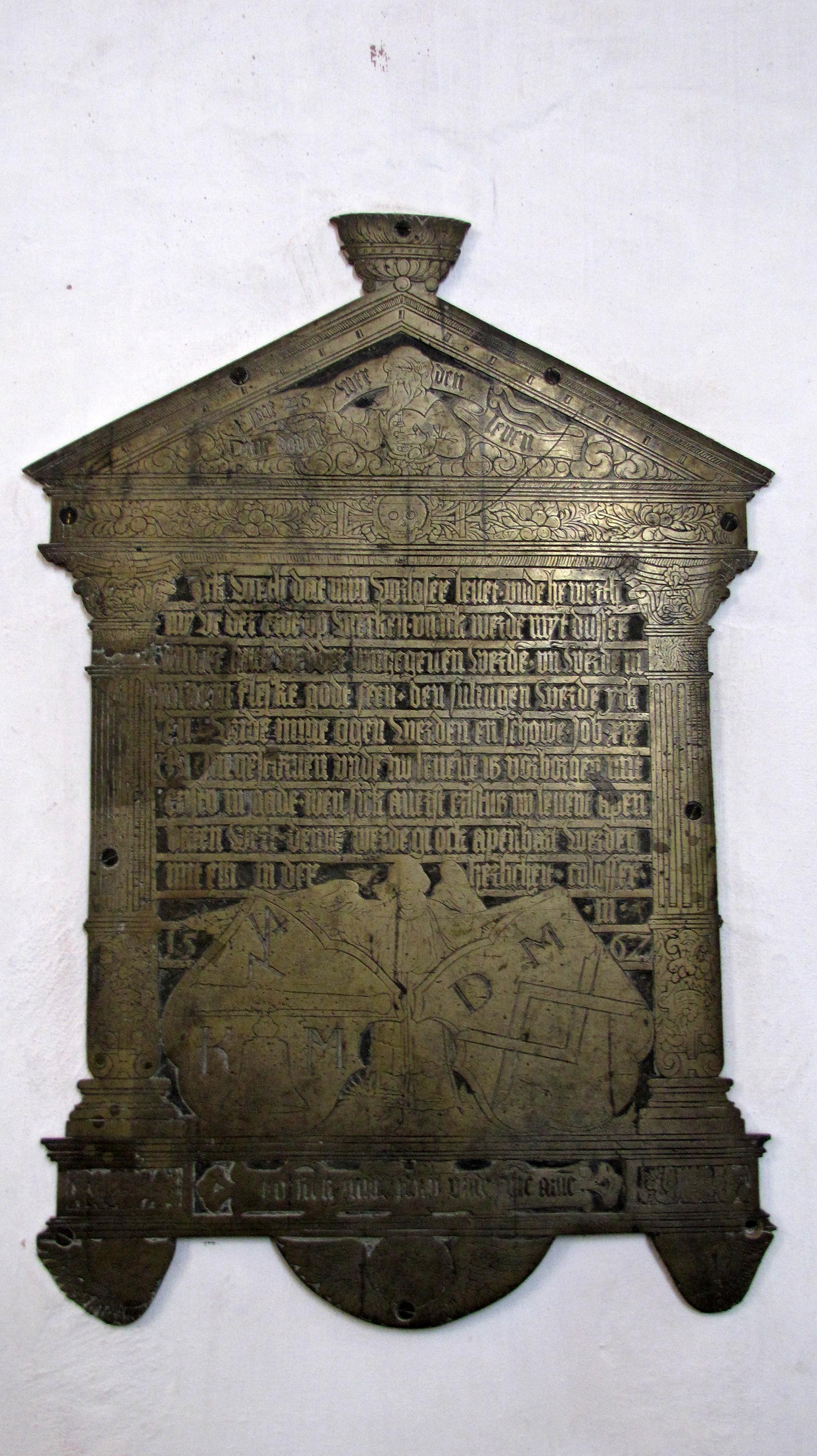 Brass inlay of grave stone for Karsten Middeldorp in St. Jakobi, Lübeck